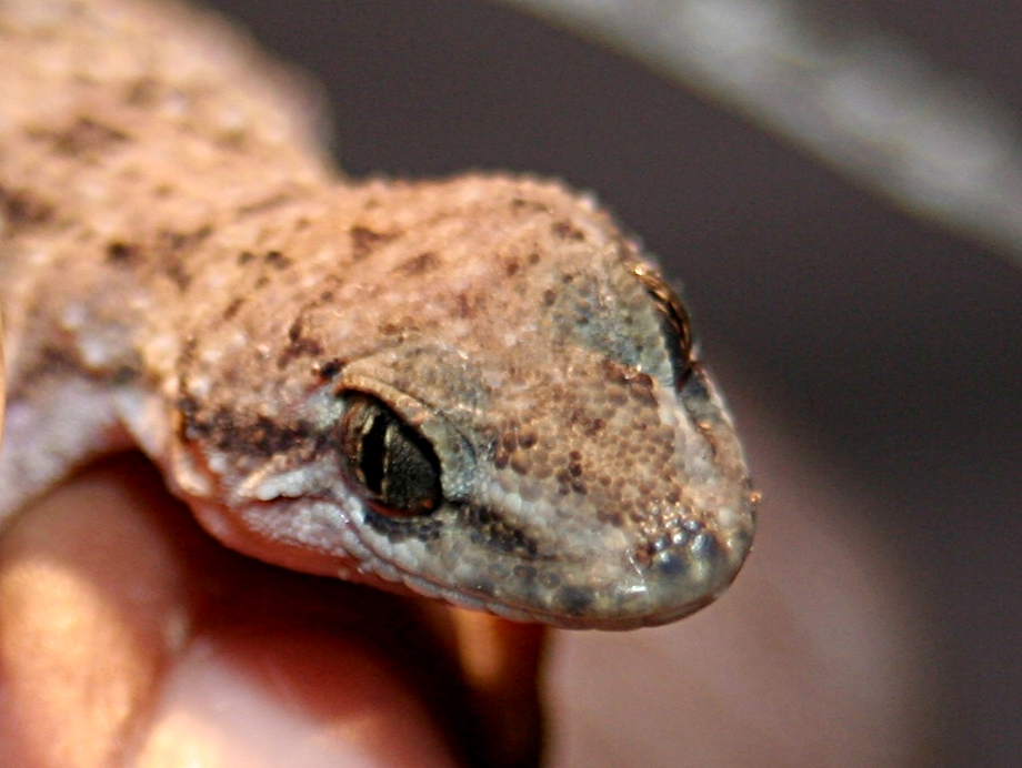 Brook's House Gecko (Hemidactylus brookii)